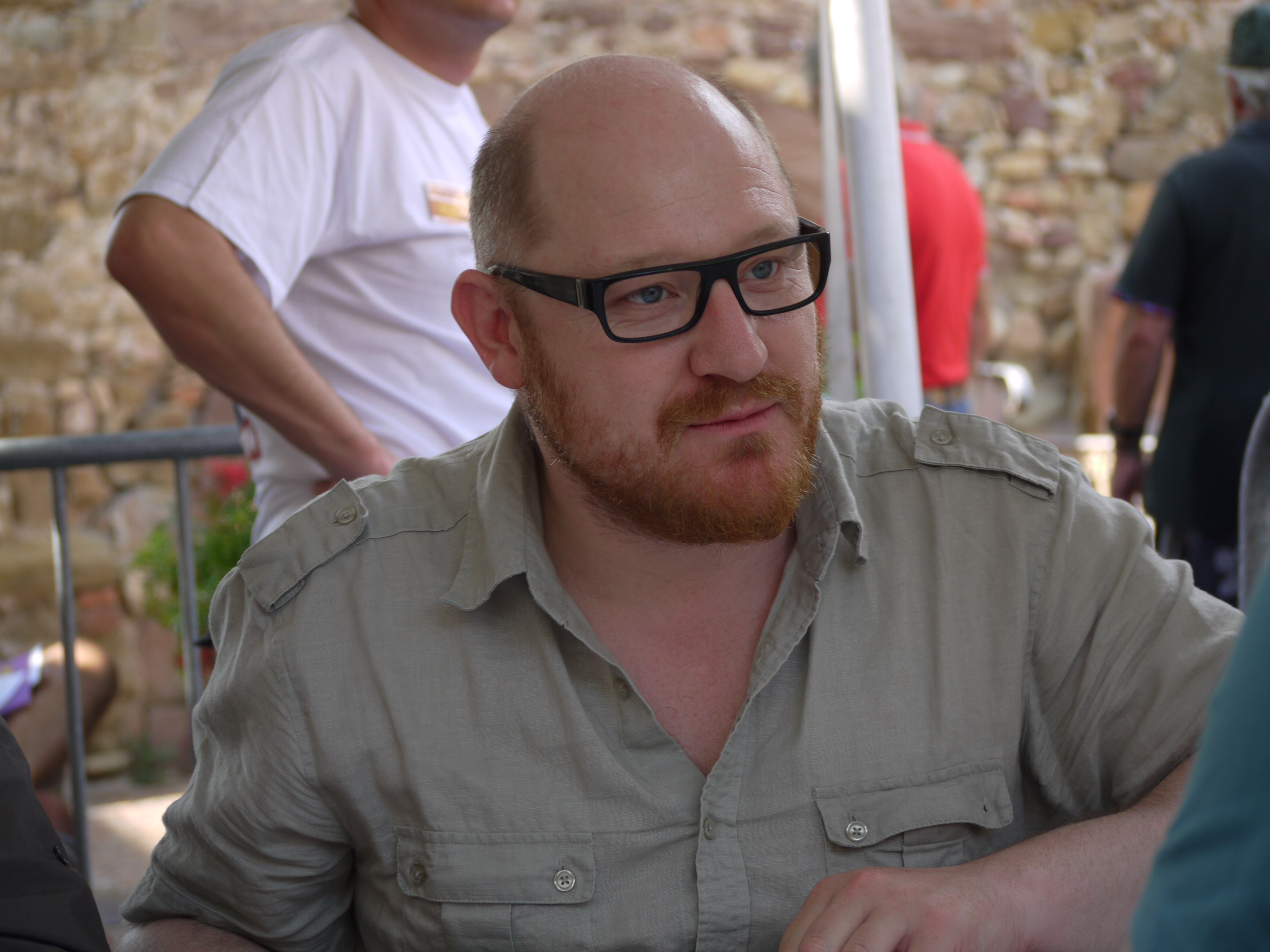 Photograph taken during the 2009 edition of the Comic Strip Festival of Roquebrune sur Argens in France. - Google Maps - Google Earth